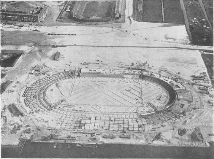 The Amsterdam Olympic Stadium under construction. 1927 (?). Photo.